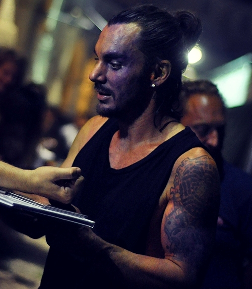 Shannon Leto at the Anfiteatro Camerini in Padova, Italy on July 14, 2013